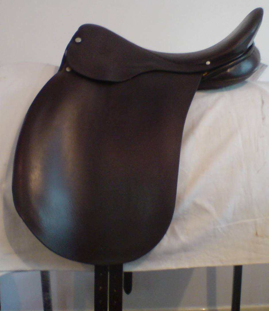 English dressage saddle